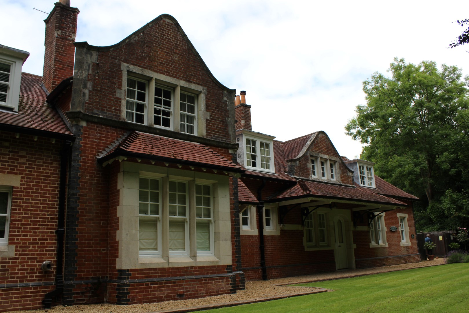 Station building Droxford railway station, Droxford, Hampshire.